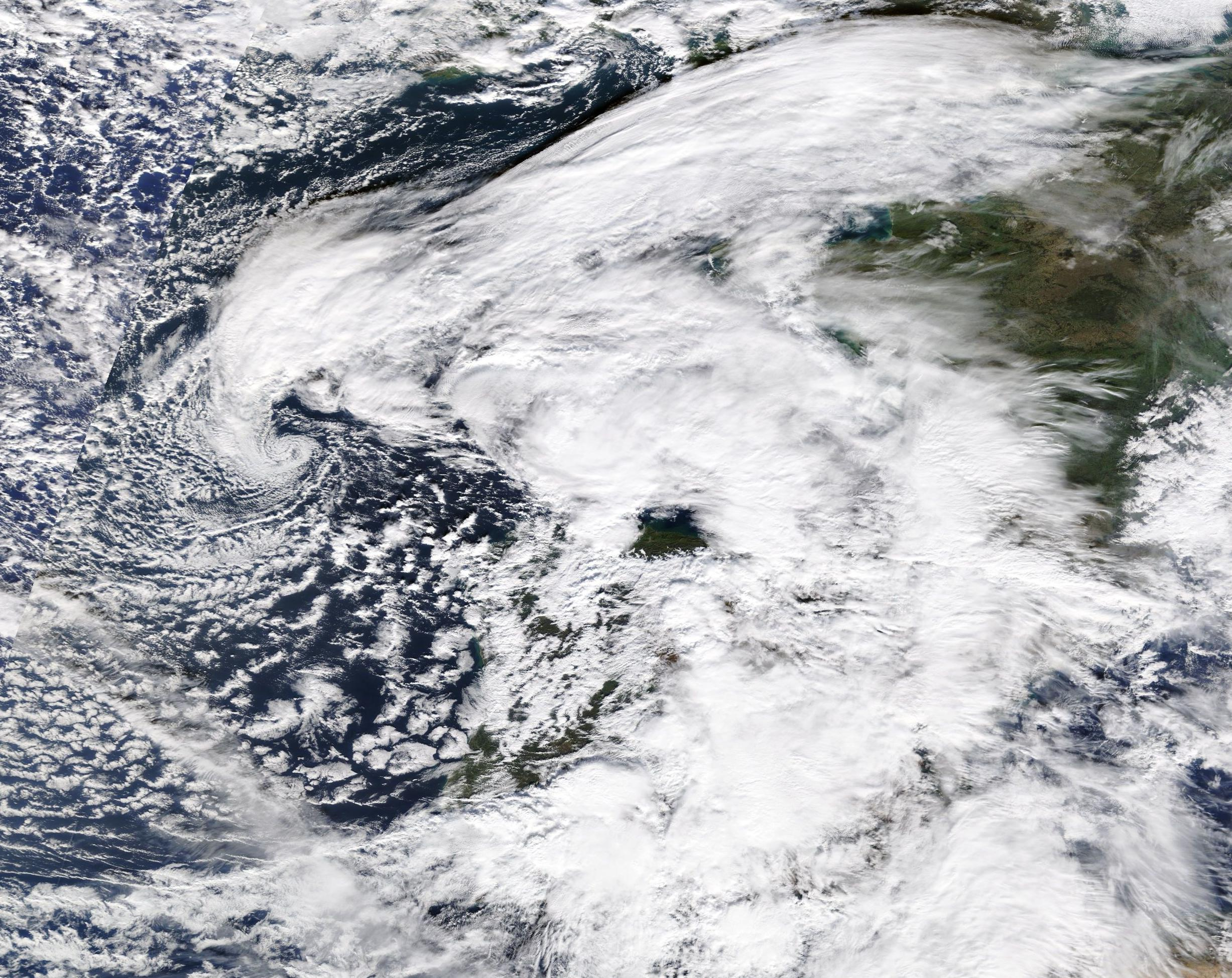 Storm Cecilia, of the 2019-2020 European windstorm season, approaching the Bay of Biscay.